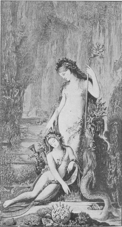 This is the depiction of the painting La Sirène et le Poète by Gustave Moreau which served as a model for a tapestry of the Gobelins workshop in Paris. When the etching was made in 1898, the tapestry wasn't finished, therefore it is the painting itself which seems to be the model of the etching.